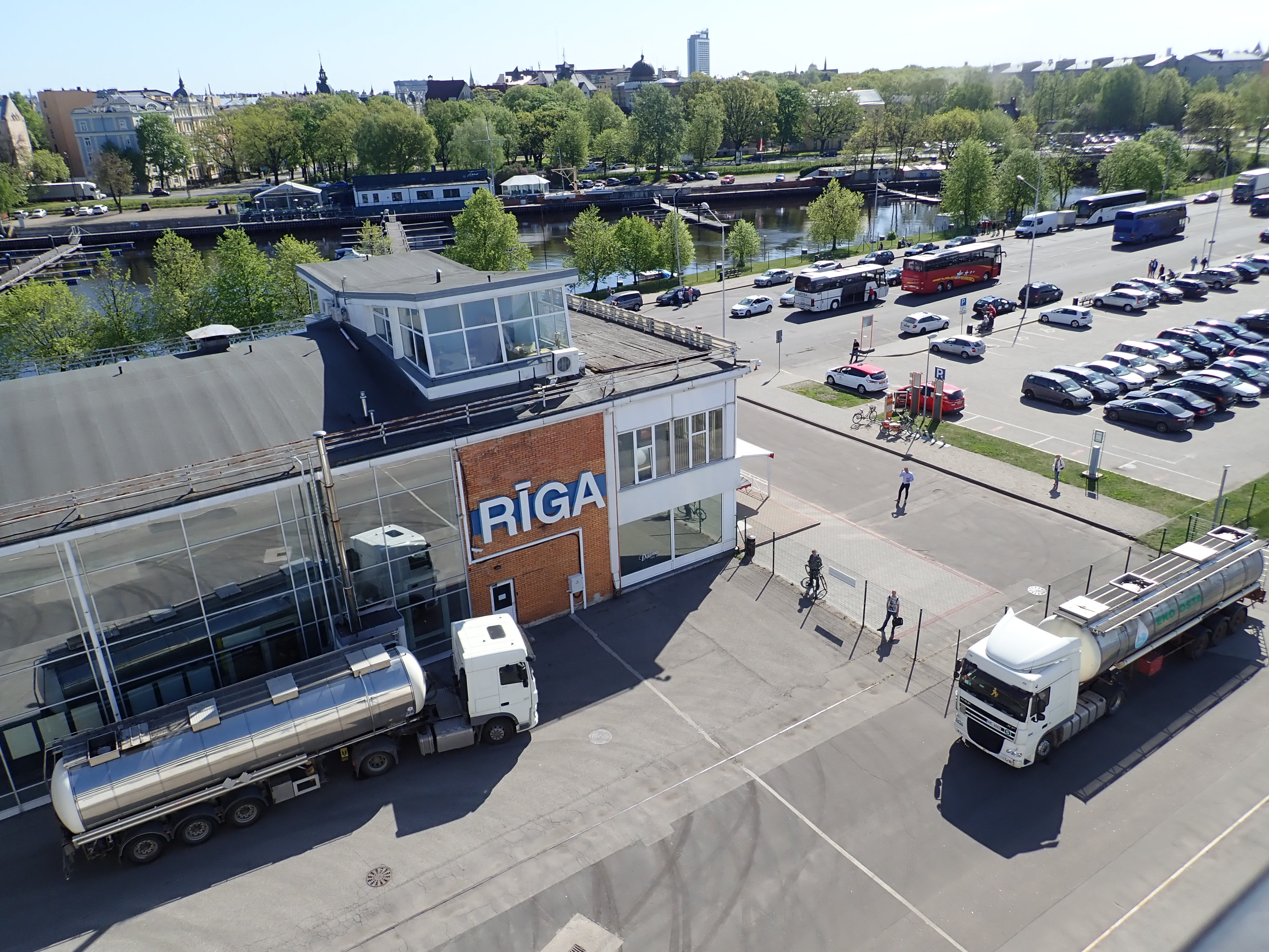 Riga passenger terminal seen from M/S Romantika, May 9, 2018.